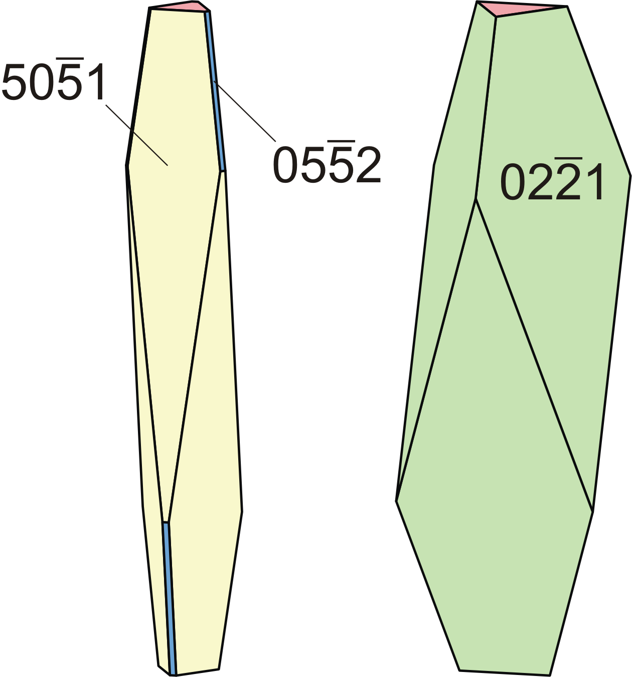 Drawing of steep rhombohedric Beudantite crystals from Horhausen, Westerwald; reference: Hintzes Handbuch der Mineralogie, volume 1.4,2, page 725